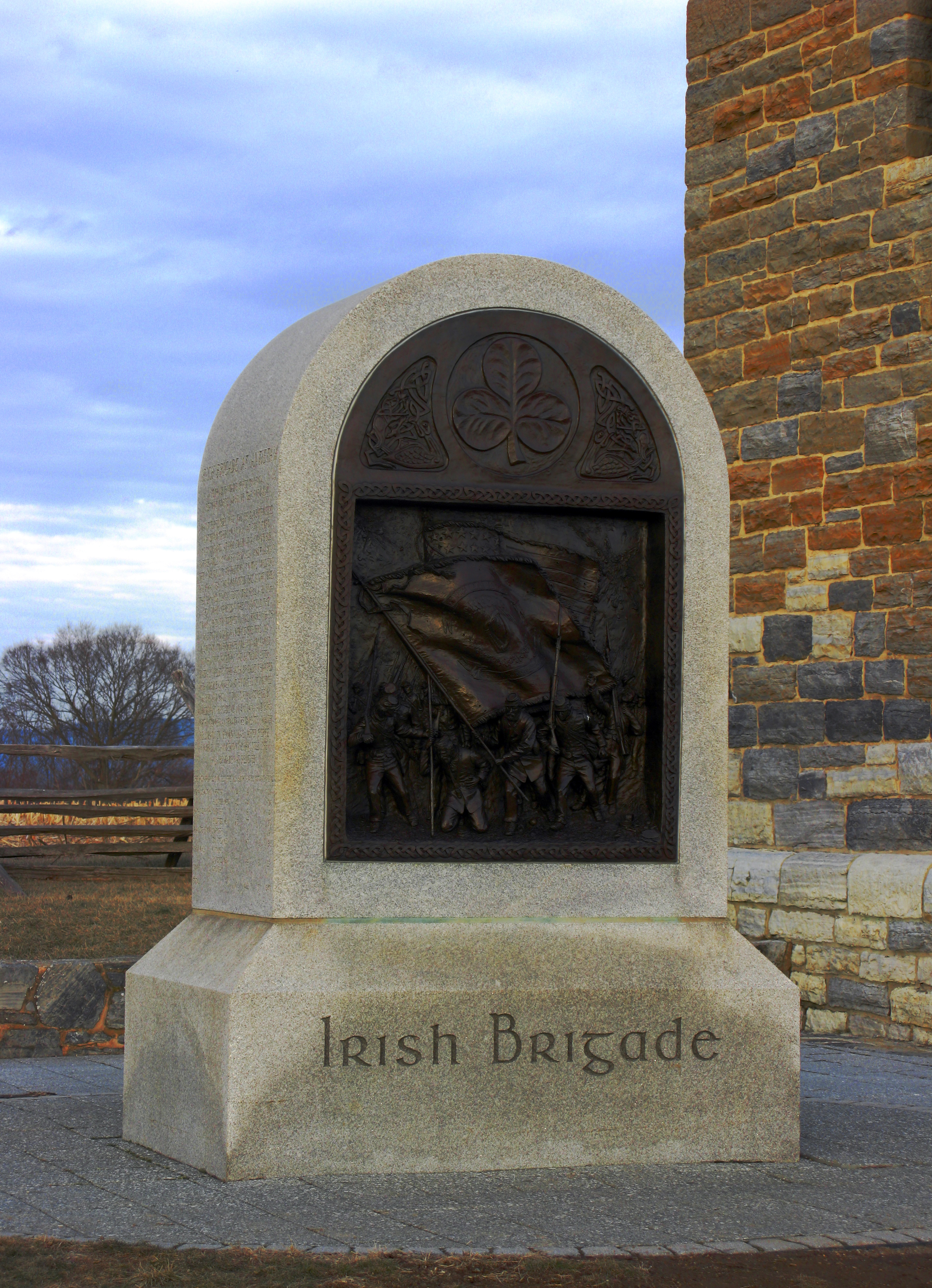 American Civil War Memorial for the Irish Brigade — at the Antietam National Battlefield, in northwestern Maryland. 2009 02 07 - 1141-1142